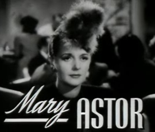 Cropped screenshot of Mary Astor from the trailer for the film The Great Lie.